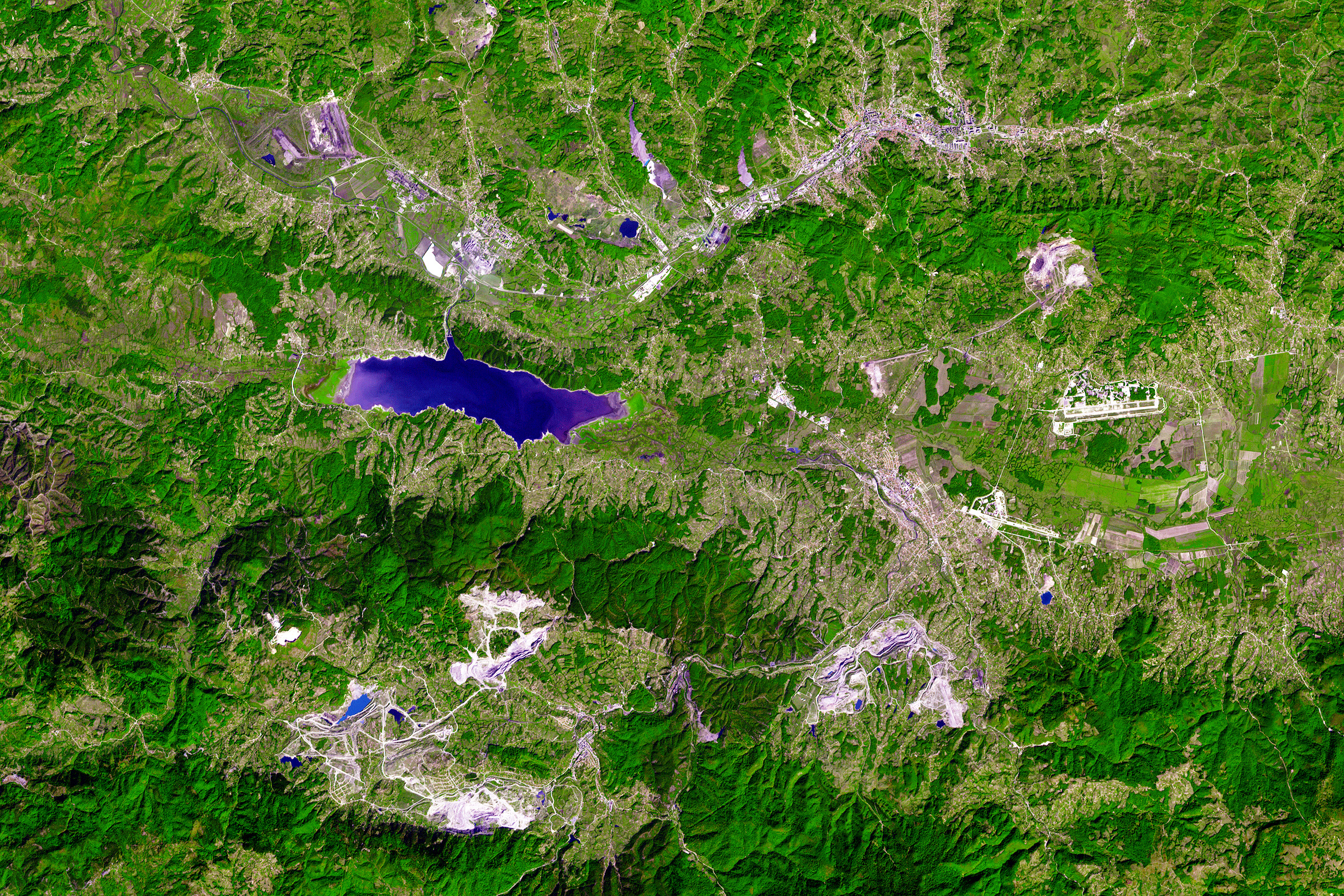 Tuzla Valley coalmines in Bosnia